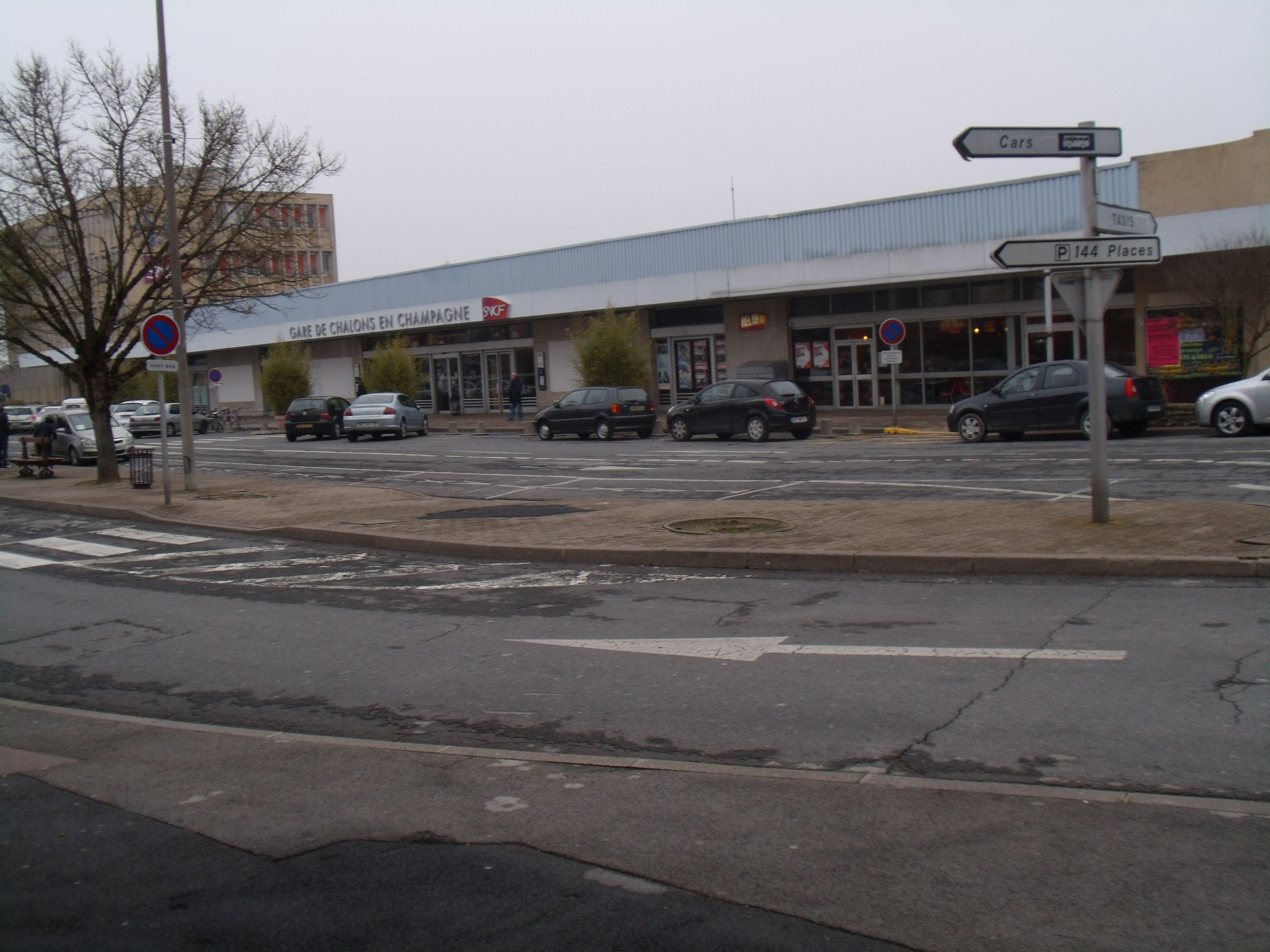 Châlons en Champagne station